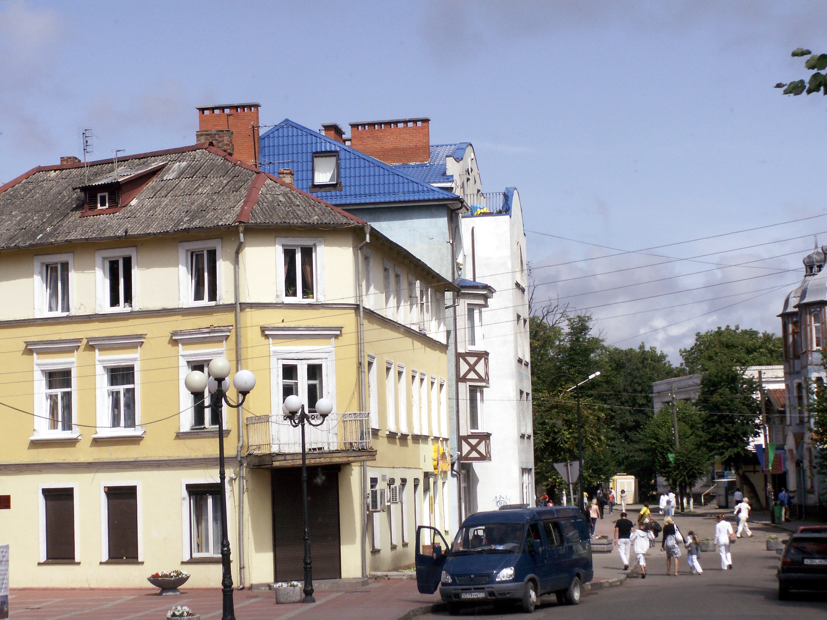 Zelenogradsk in Kaliningrad oblast